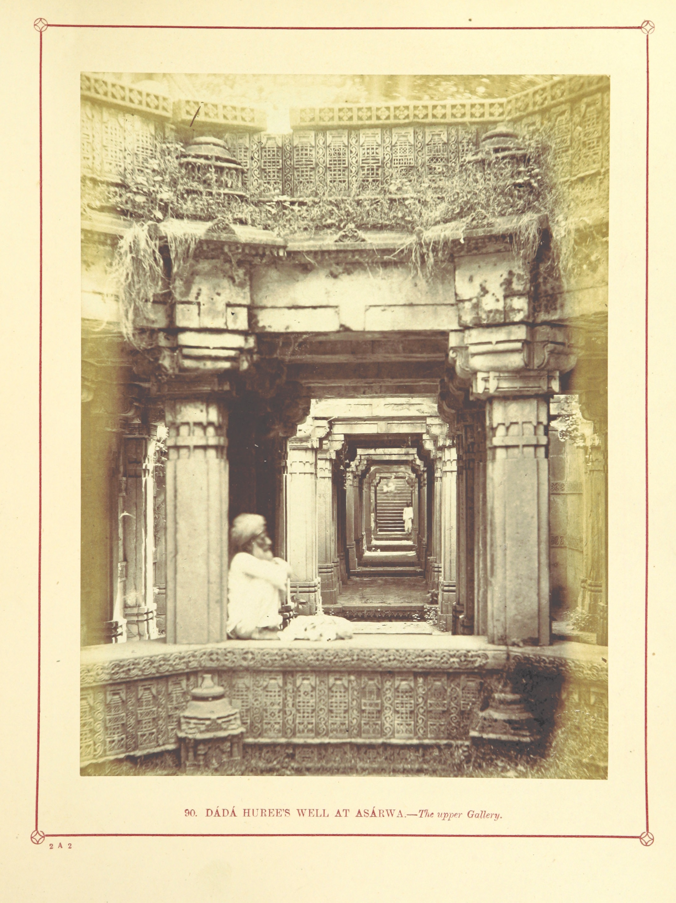 Image taken from: Title: "Architecture at Ahmedabad, the Capital of Goozerat, photographed by Colonel Biggs, ... With an historical and descriptive sketch, by T. C. H., ... and architectural notes by J. Fergusson, etc" Author: HOPE, Theodore Cracraft - Sir, K.C.S.I Contributor: BIGGS, Thomas. Contributor: FERGUSSON, James - Architect Shelfmark: "British Library HMNTS 10057.f.17.", "British Library OC V 6665" Page: 305 Place of Publishing: London Date of Publishing: 1866 Issuance: monographic Identifier: 001730119 Note: The colours, contrast and appearance of these illustrations are unlikely to be true to life. They are derived from scanned images that have been enhanced for machine interpretation and have been altered from their originals. If you wish to purchase a high quality copy of the page that this image is drawn from, please order it here. Please note that you will need to enter details from the above list - such as the shelfmark, the page, the book's volume and so on - when filling out your order. Following this or the link above will take you to the British Library's integrated catalogue. You will be able to download a PDF of the book this image is taken from, as well as view the pages up close with the 'itemViewer'. Click on the 'related items' to search for the electronic version of this work. Click here to see all the illustrations in this book and click here to browse other illustrations published in books in the same year. Please click on the tags shown on the right-hand side for other ways to browse the illustrations.